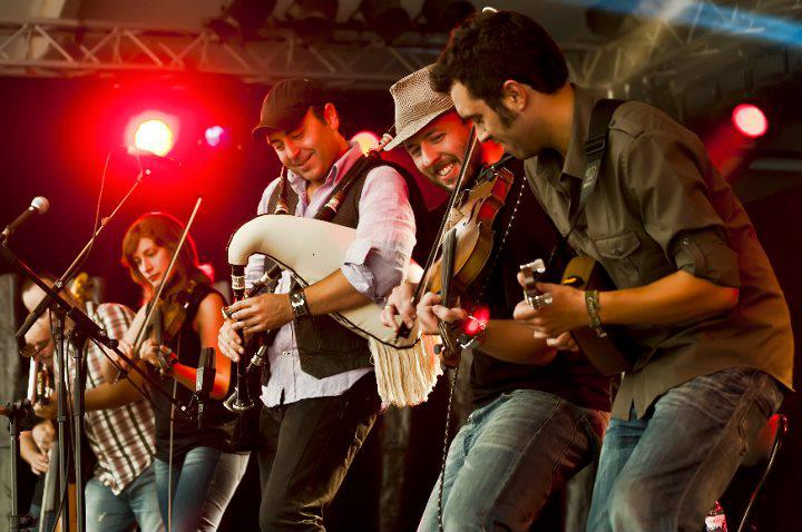 Anxo Lorenzo is a musician who plays the gaita, the traditional Galician bagpipe, from Moaña (Tirán), a small village on the Atlantic Coast of Galicia (Spain). Lorenzo has played on several festivals, including the William Kennedy Piping Festival and Féile Iorrais in Northern Ireland .